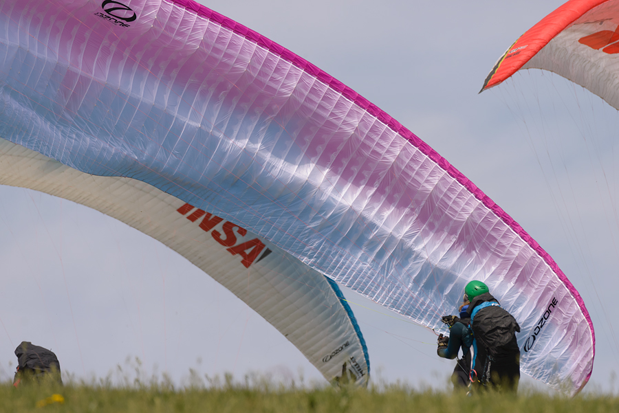 paragliding take off Rubbio (Conco / Bassano del Grappa)